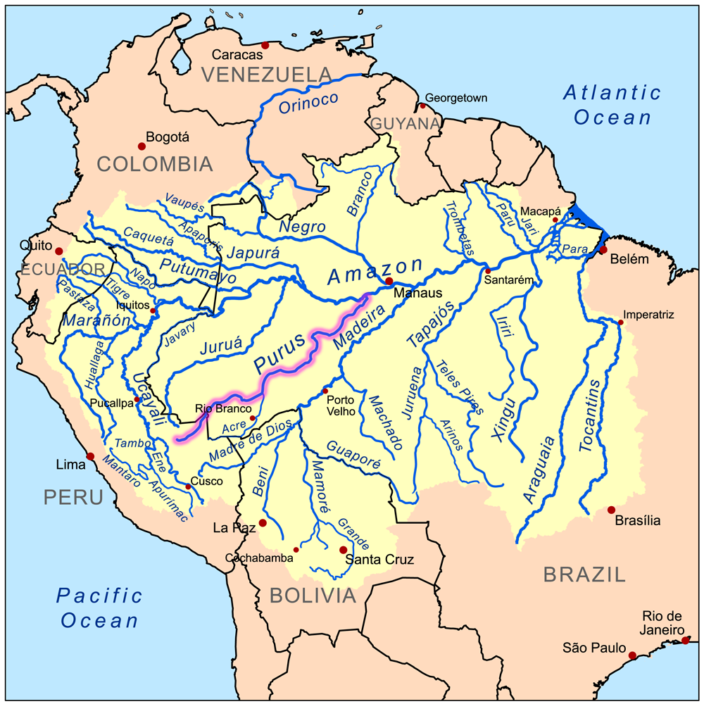 This is a map of the Amazon River drainage basin with the Purus River highlighted.